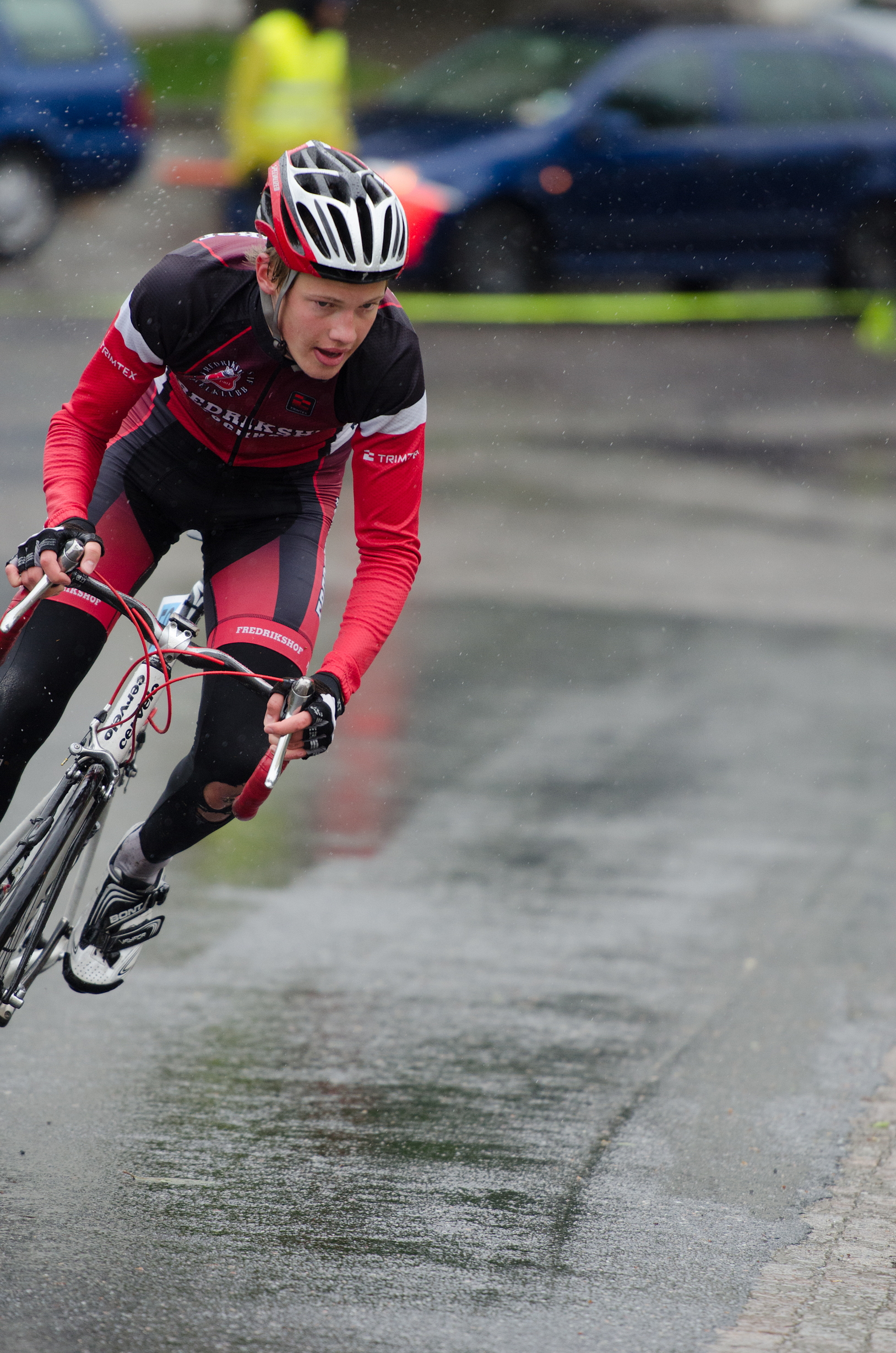 Junior bicycle racer from Fredrikshofs cycling team during Luma GP 2012. Stockholm, Sweden.